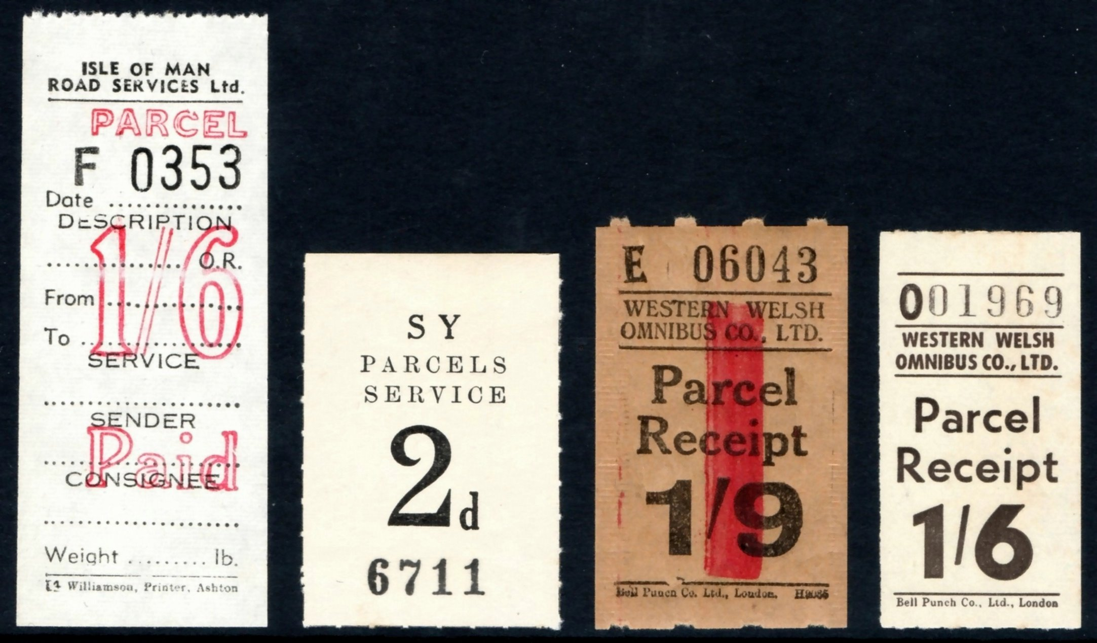 Stamps of private parcel service road carriers.